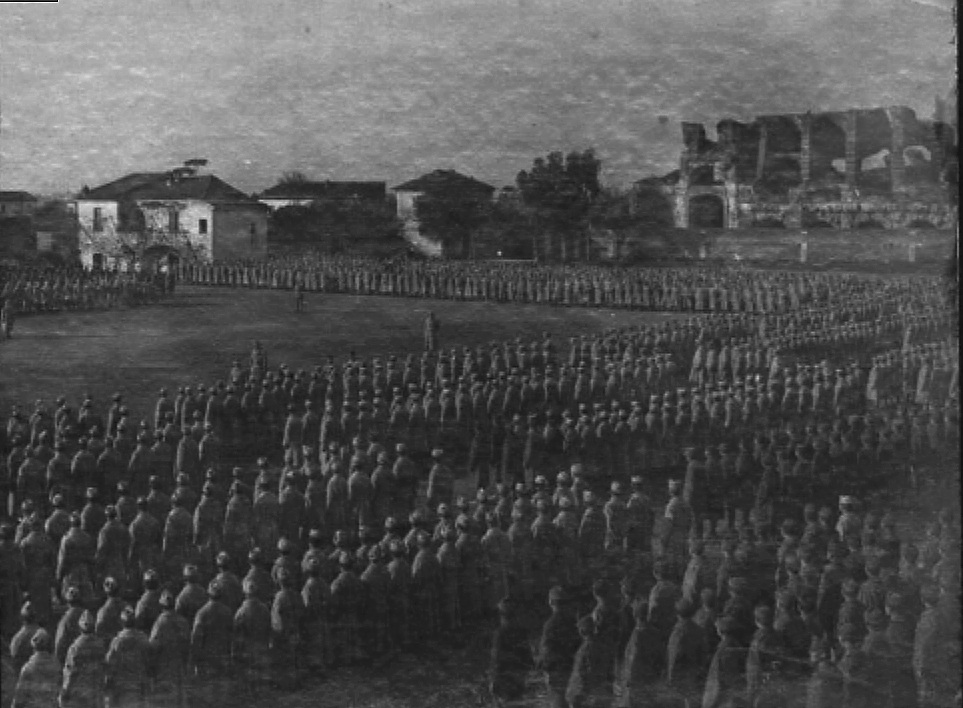 Inspection of Dąbrowski Regiment of Polish Army in Italy in 1918